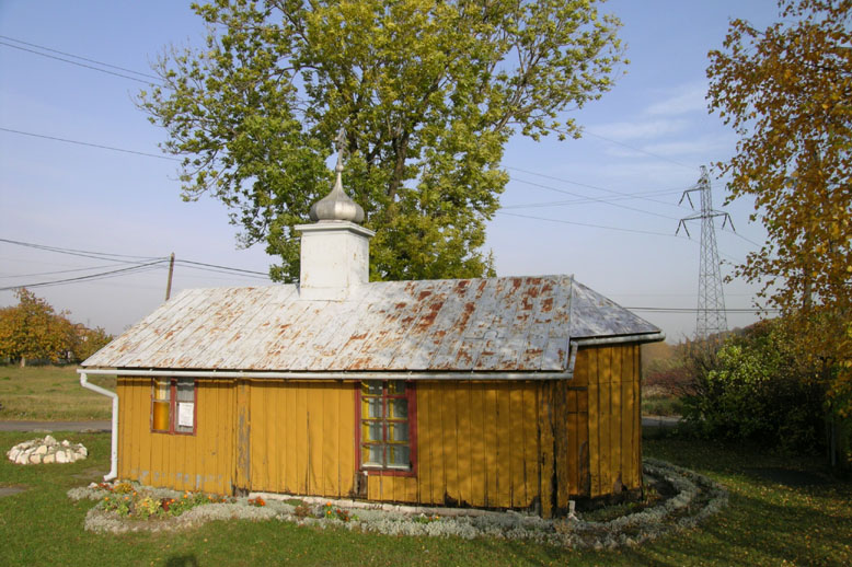 Wayside shrine in Wolbrom, Poland